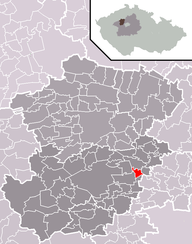 Location of Zájezd municipality within Kladno District and administrative area of Kladno as a Municipality with Extended Competence.